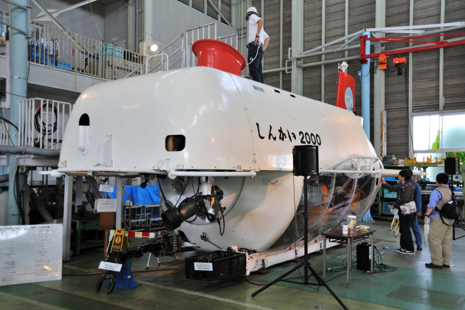 Japan Agency for Marine-Earth Science and Technology (JAMSTEC) Manned Research Submersible (DSV）Shinkai 2000.